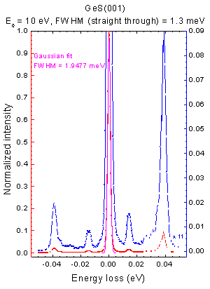 HREELS of surface phonons (Fuchs-Kliever phonons) on GeS(001)